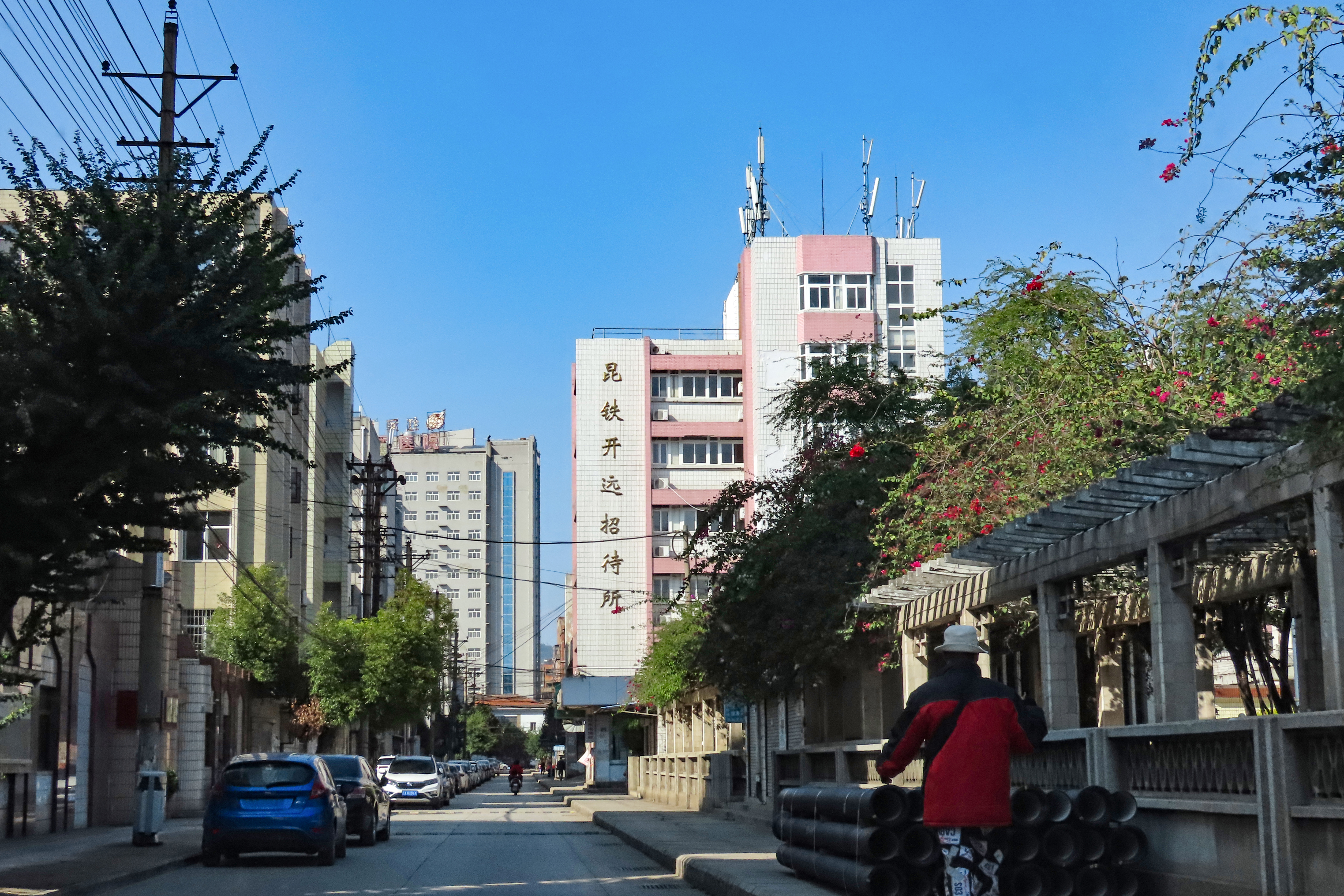 In early days, this street was filled with French elements.